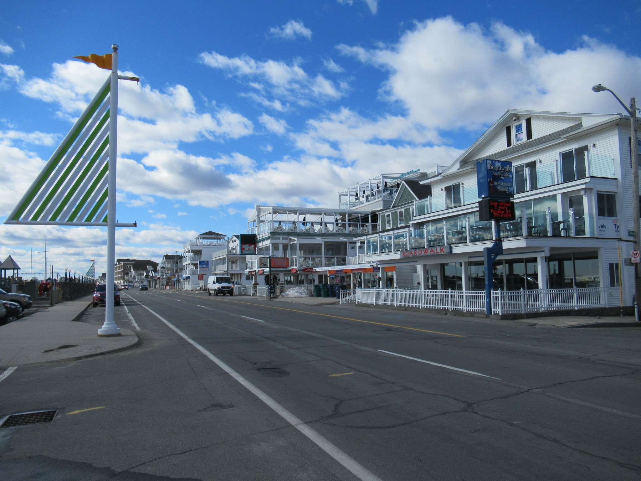 Ocean Boulevard (New Hampshire Route 1A) in Hampton Beach, New Hampshire